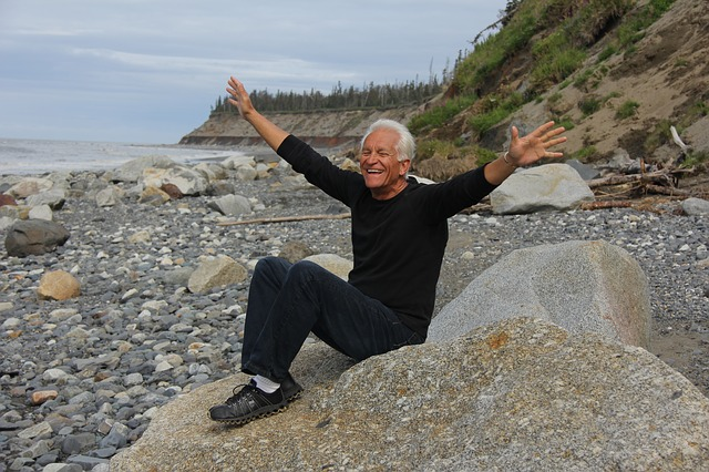 Old man is happy on the beach